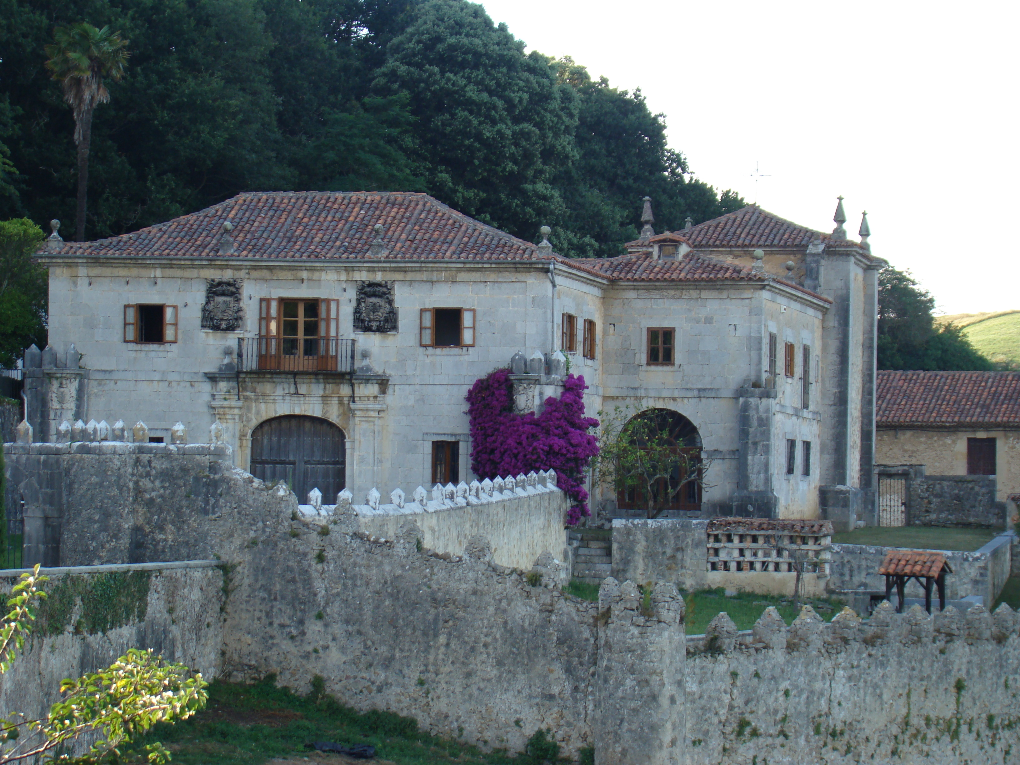 Palace of the counts of Isla-Fernández in Isla, Cantabria, Spain. The construction was ordered by Juan Fernández de Isla, who was bishop of Cádiz since 1676 and then archbishop of Burgos since 1680.